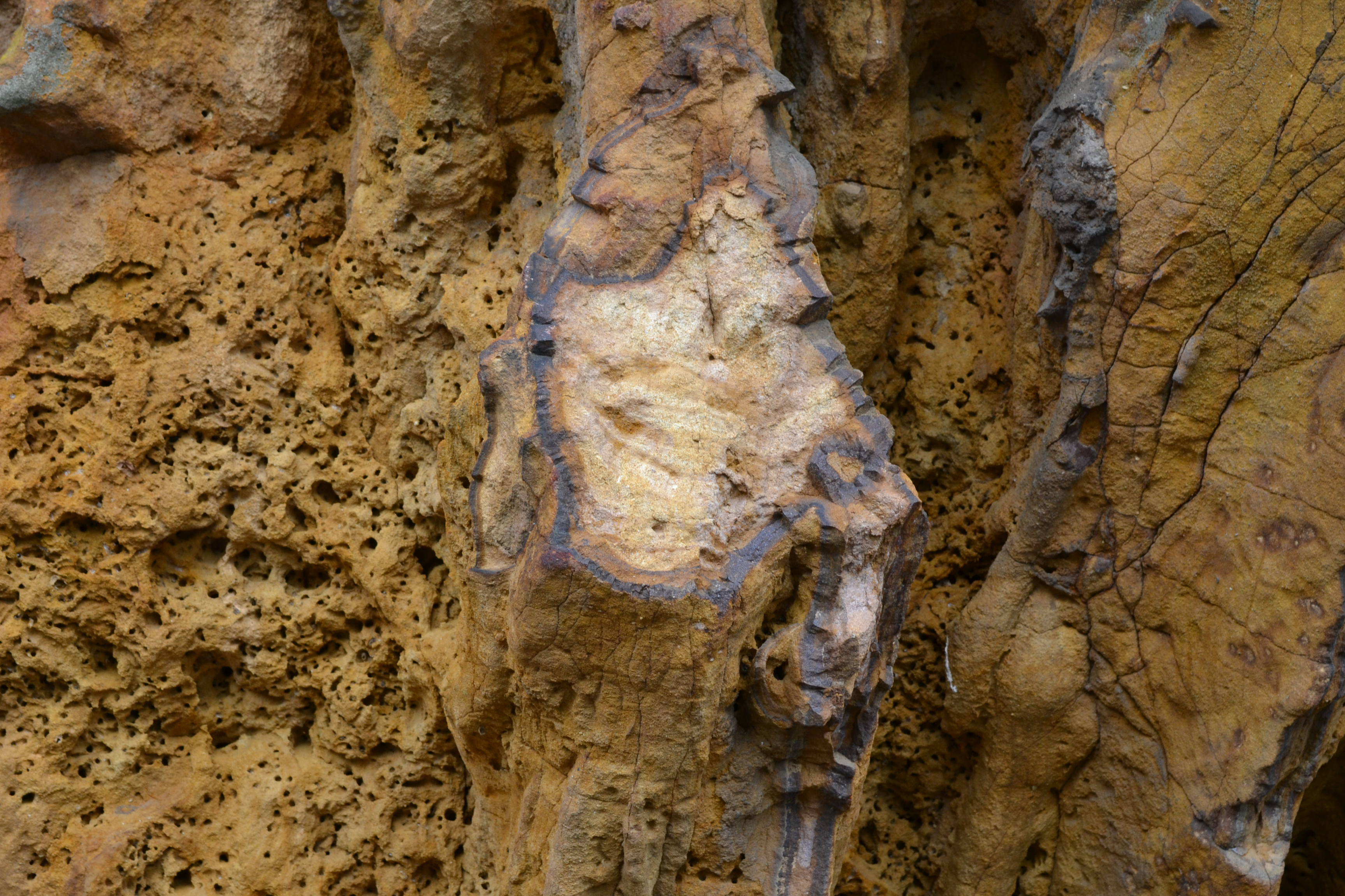 The so-called lightning tubes near Battenberg, Rhineland-Palatinate (Detail)